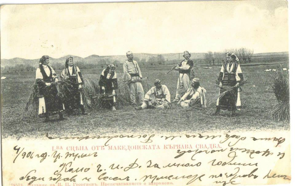 Makedonska Karvava Svatba Postcard